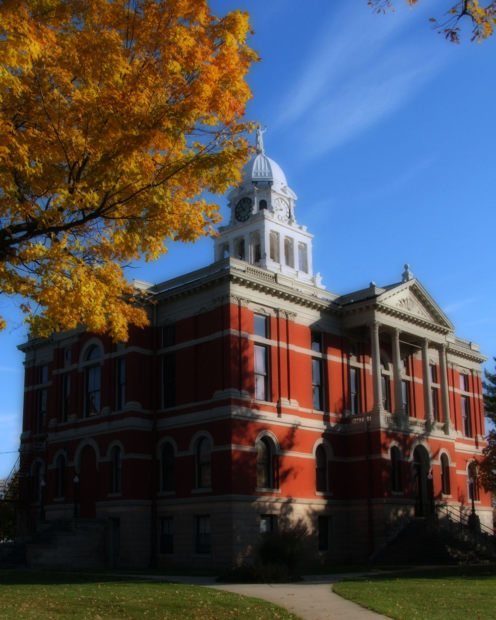 It was a beautiful fall morning today. Eaton County Courthouse, Charlotte, MI